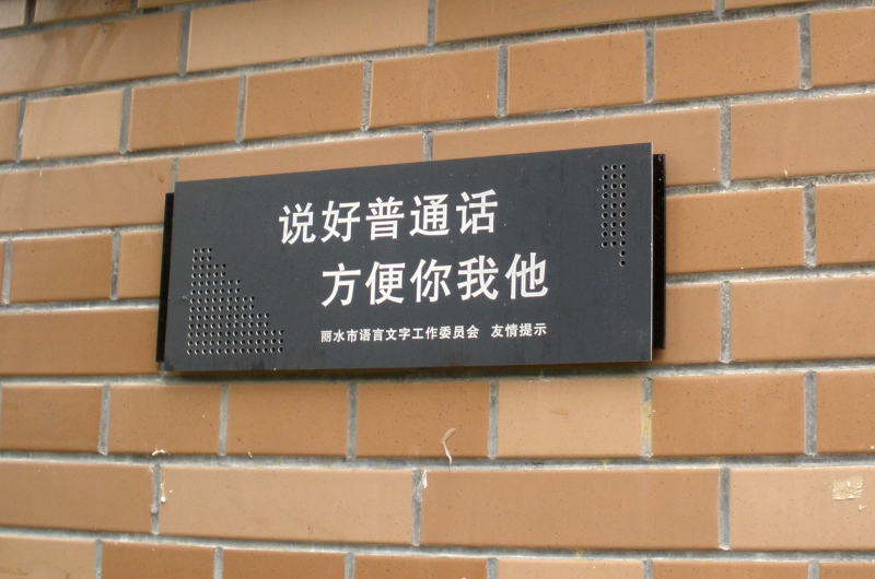 A sign in the city of Lishui, Zhejiang urging its viewers to speak Mandarin. The Chinese says "说好普通话方便你我他" which translates as "Speaking good Mandarin is a convenience for all"